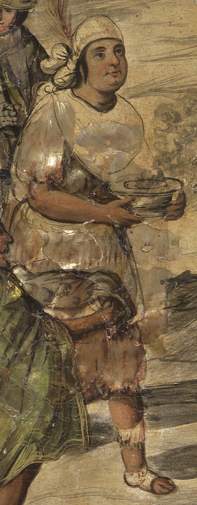 Xicomecoatl represented in fourth table of the Conquest of Mexico. This painting was made in 1698 by the new Spanish painters Juan González and Miguel González.